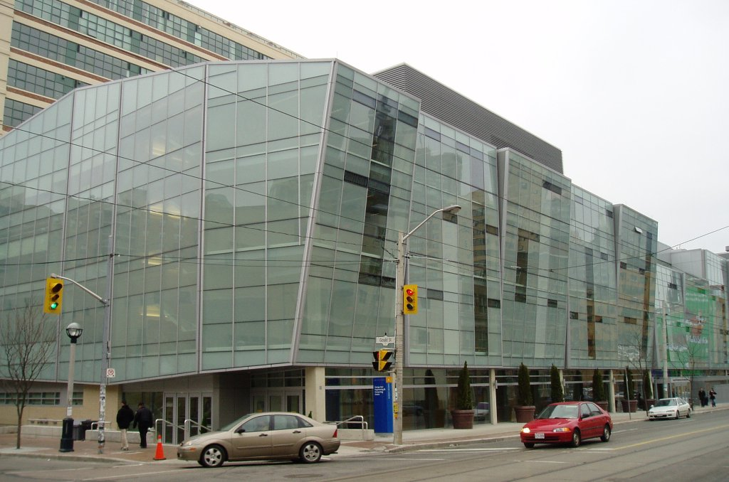 George Vari Engineering and Computing Centre